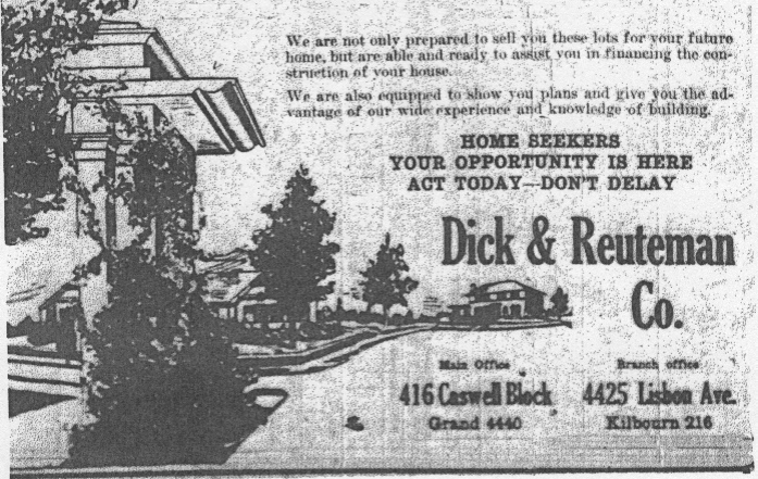 Advertisement for purchasing homes in the Martin Drive neighborhood in the 1920s.